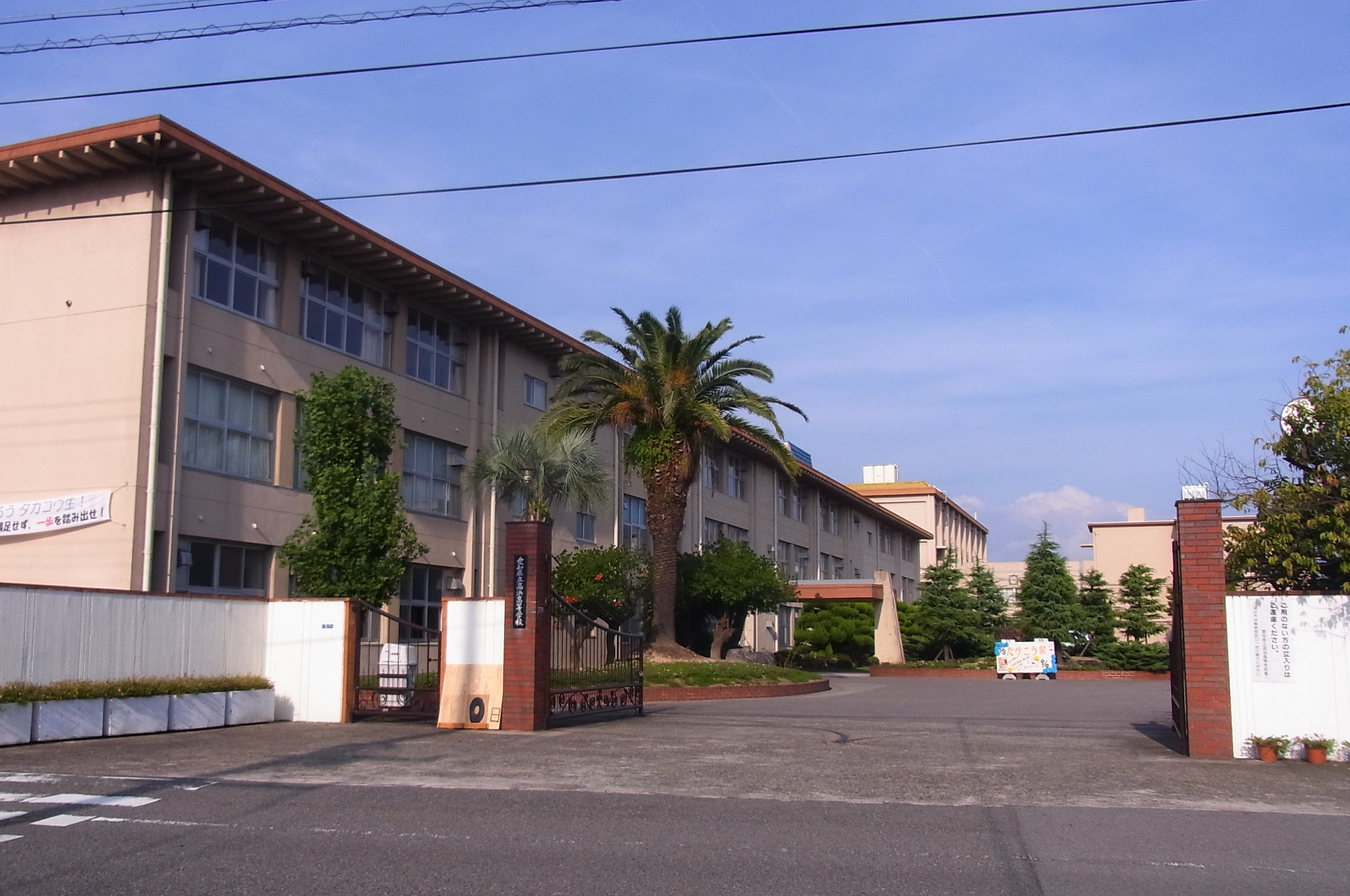 Aichi Prefetural Takahama High School